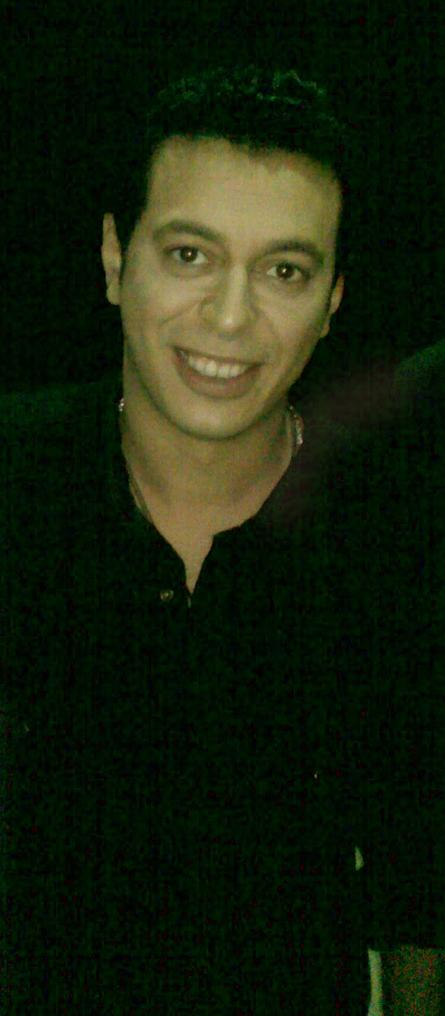 Egyptian actor Mustafa Shaaban